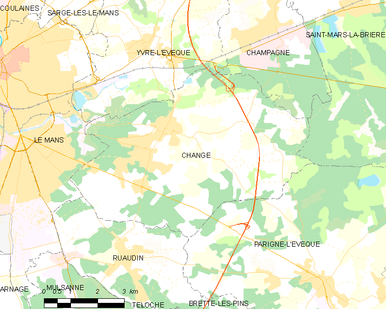 Map of French municipality